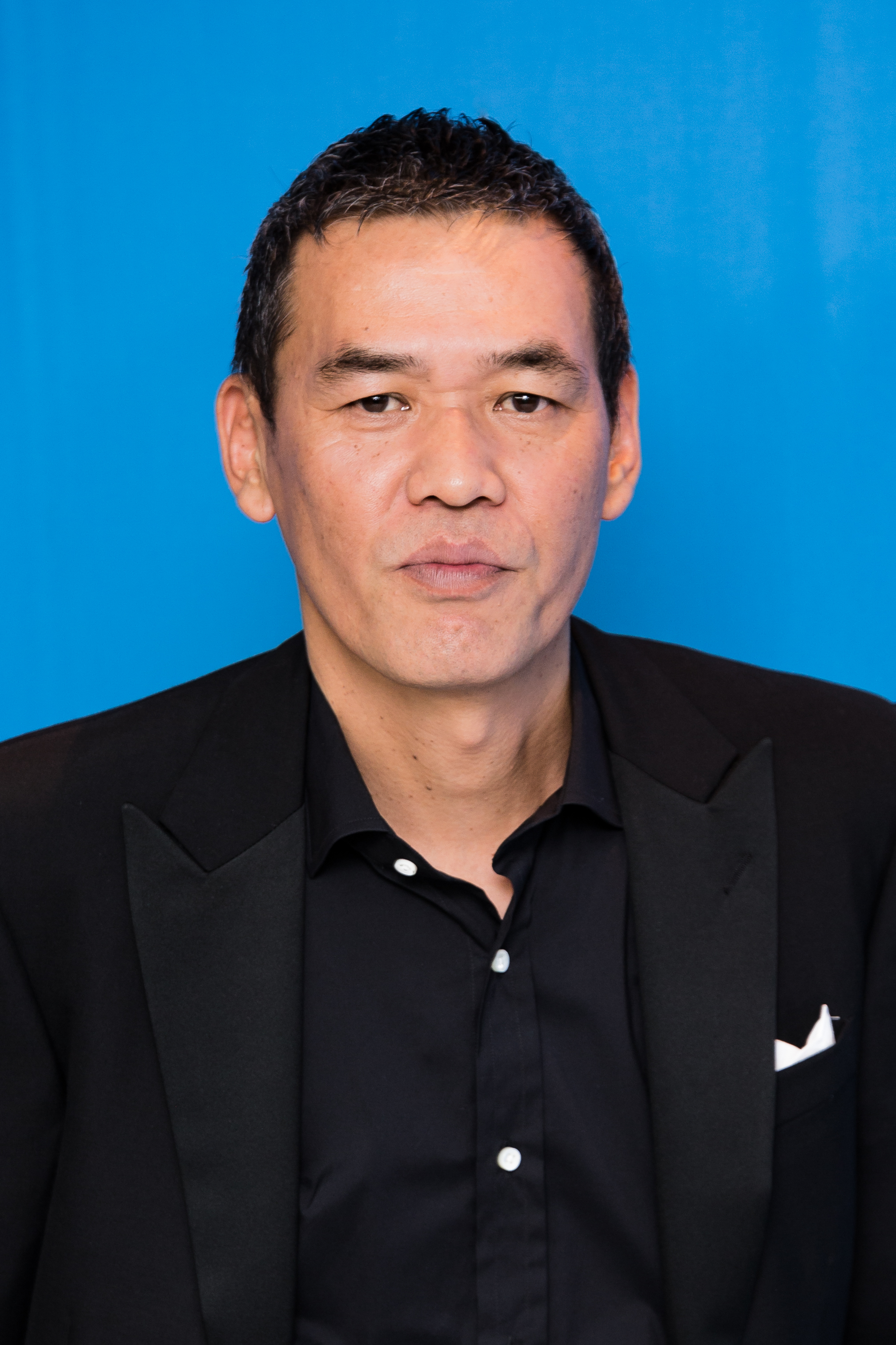 The director Sabu (Hiroyuki Tanaka) of Mr. Long at the Berlinale 2017